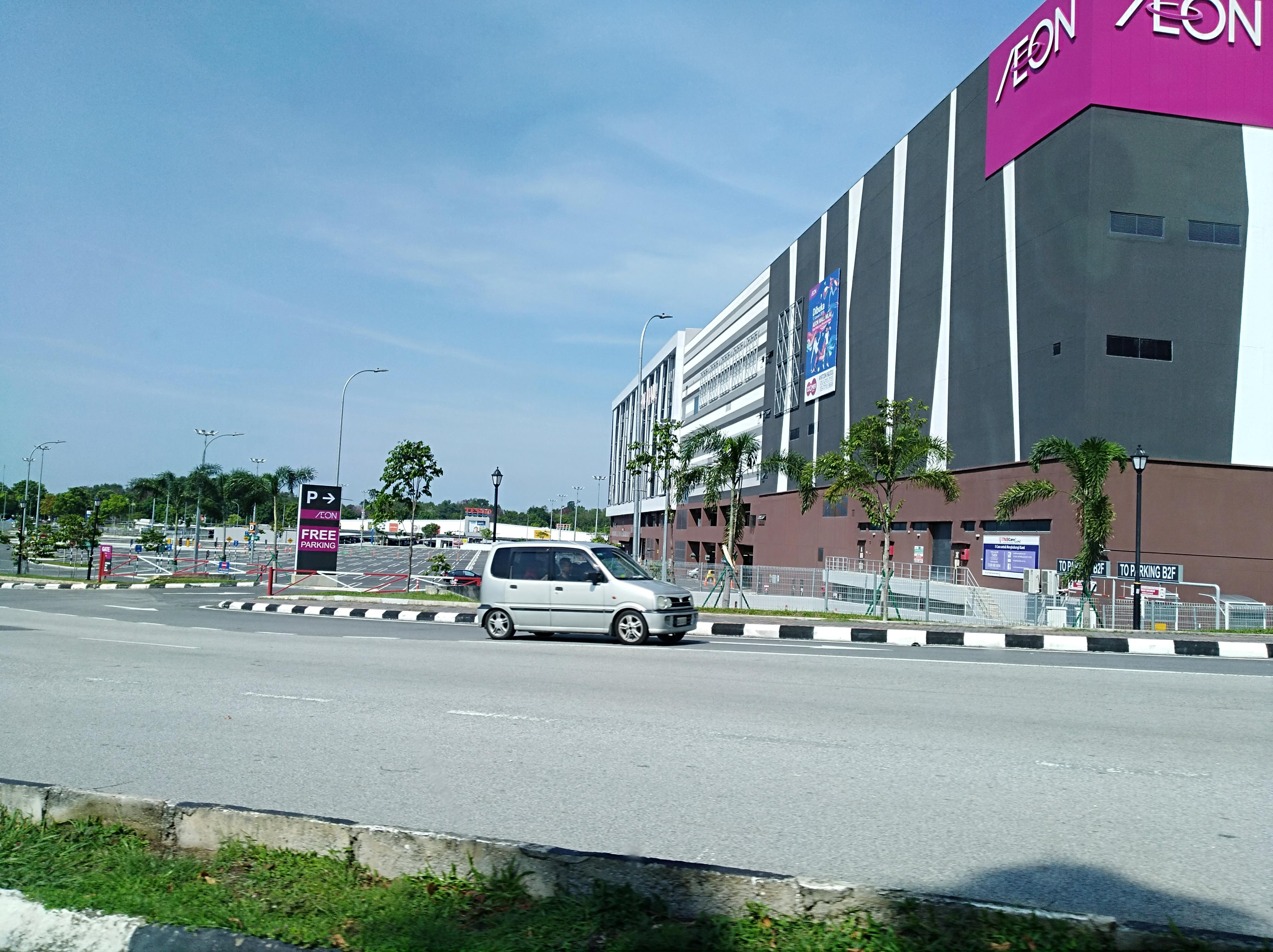 Taken on Qing Ming. AEON Nilai was opened at around February 2019.